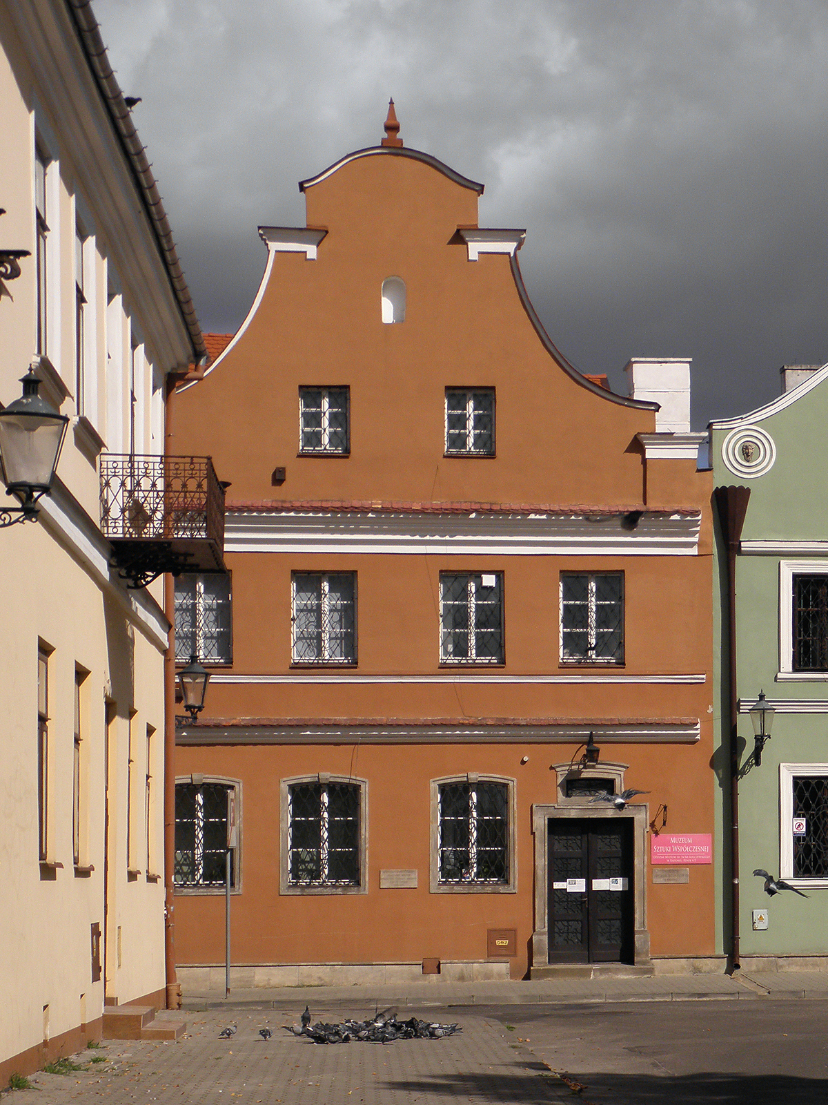 Dom Esterki in Radom in Poland.